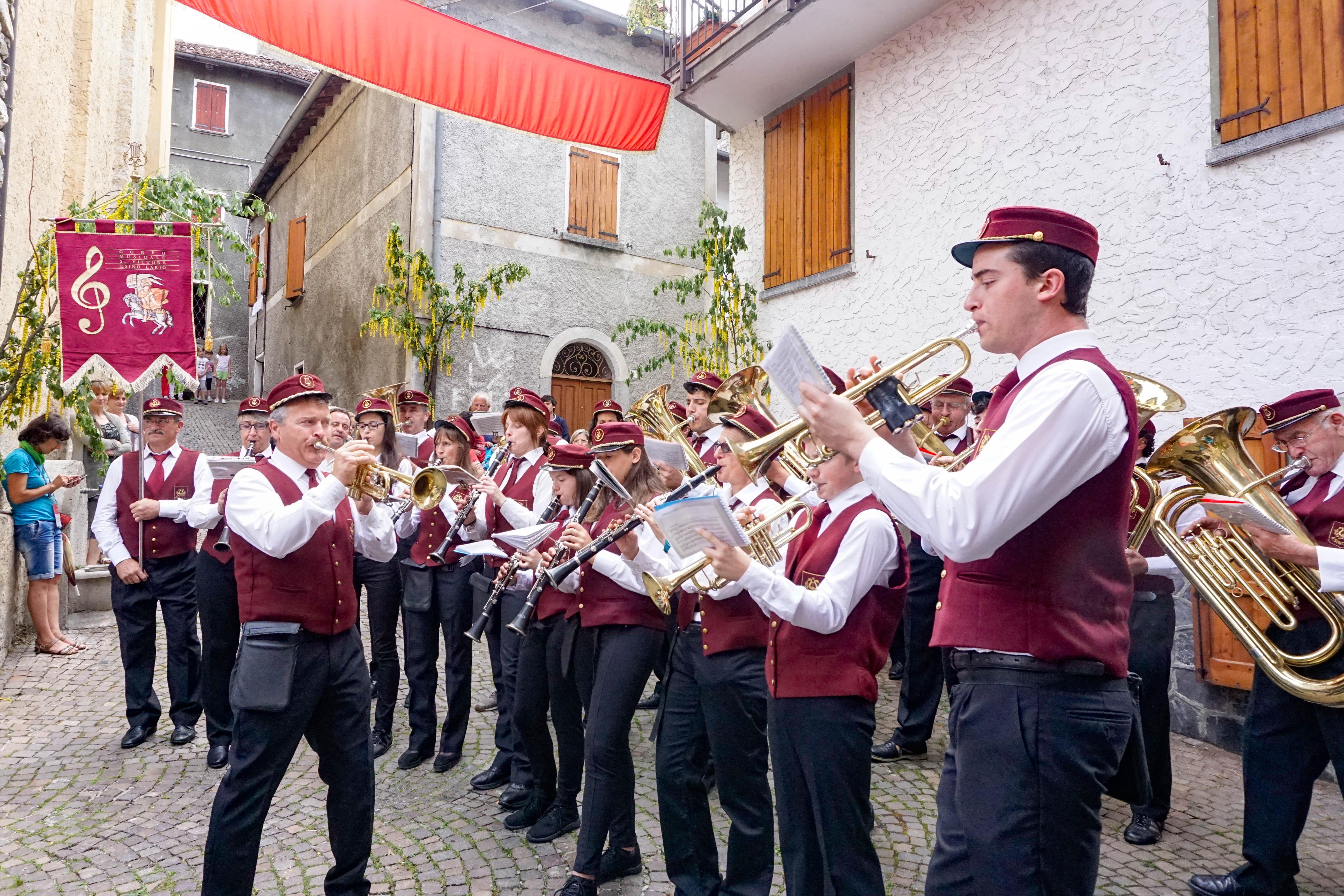 Wikimania 2016:Esino inferiore - Church of San Giovanni - Mass and procession for the Patron Saint